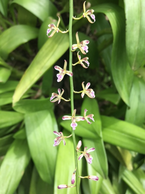 Acriopsis liliifolia var. liliifolia at Bogor Botanical Garden